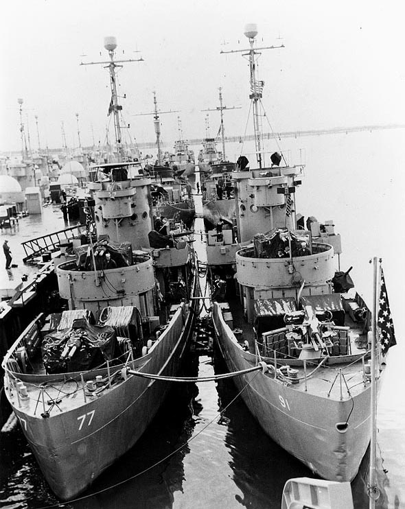 Photo #: 80-G-438383 Transfer of ships to the Republic of Korea Navy Four U.S. Navy ships at Astoria, Oregon, during their transfer to the ROK Navy. In the foreground are USS LSSL-77, which became the Korean Yung Huang Man (LSSL-107), and USS LSSL-91, which became the Korean Kang Hwa Man (LSSL-108). Behind them are USS PC-485, which became the Korean Han La San (PC-705), and USS PC-600, which became the Korean Myo Hyang San (PC-706). Note snow on the ships. Photograph is dated 24 January 1952. Official U.S. Navy Photograph, now in the collections of the National Archives.